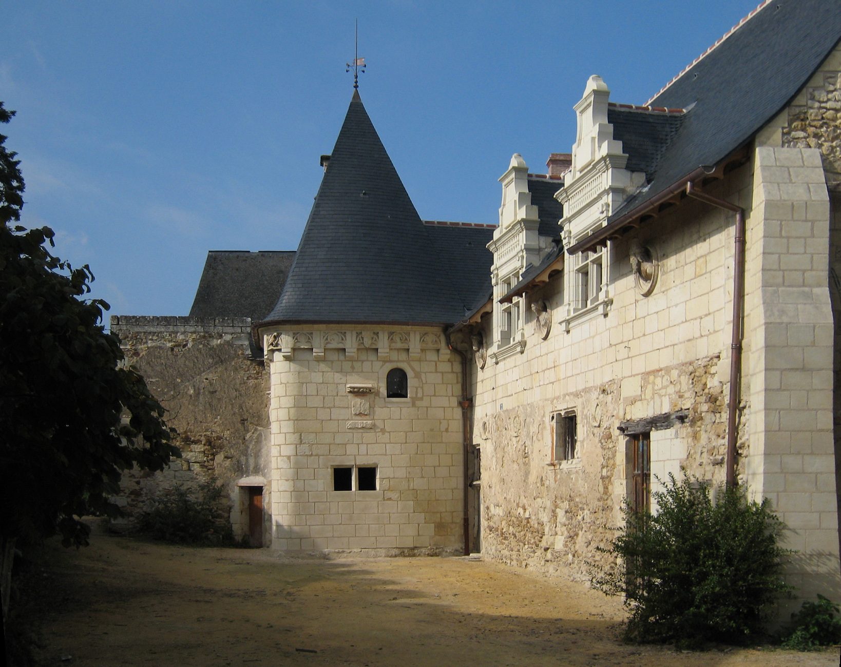 Village of Saint-Rémy-la-Varenne in the département of Maine-et-Loire in the region Pays de la Loire in France - one of the priory's restorated buildings